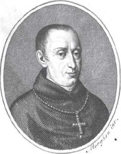 Salvatore Maria Di Blasi, Sicilian archivist